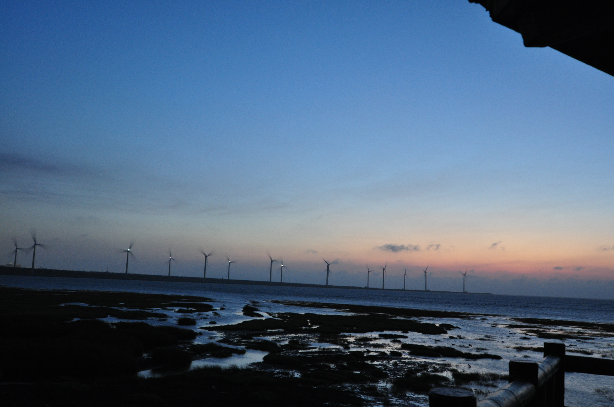 Evening sky above the wetland of Kaomei.Kaomei Wetland is located on the north-west side of Taichung County in Taiwan.This photo was taken from Kaomei.